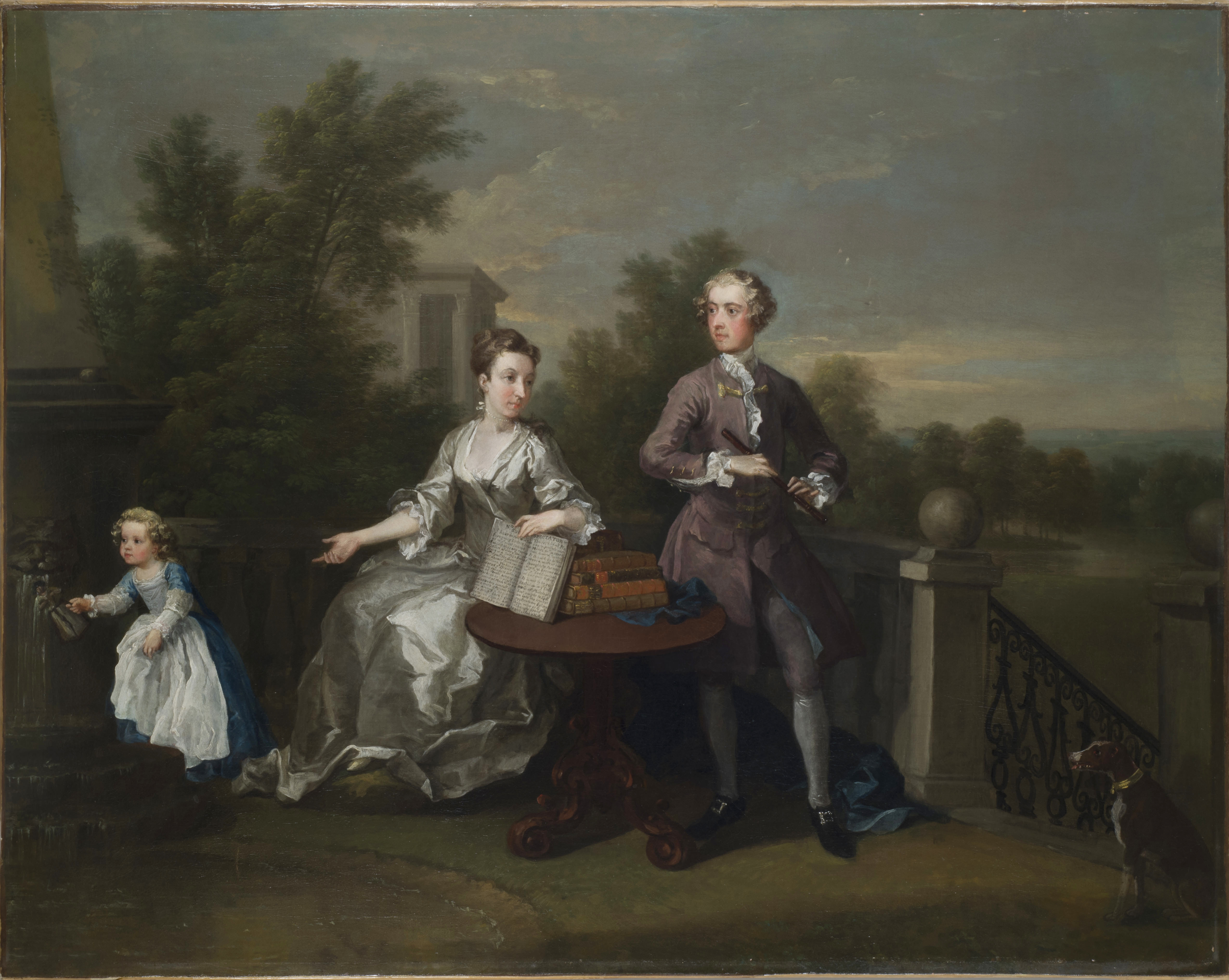 Edwards Hamilton family on a Terrace 1734 by William Hogarth